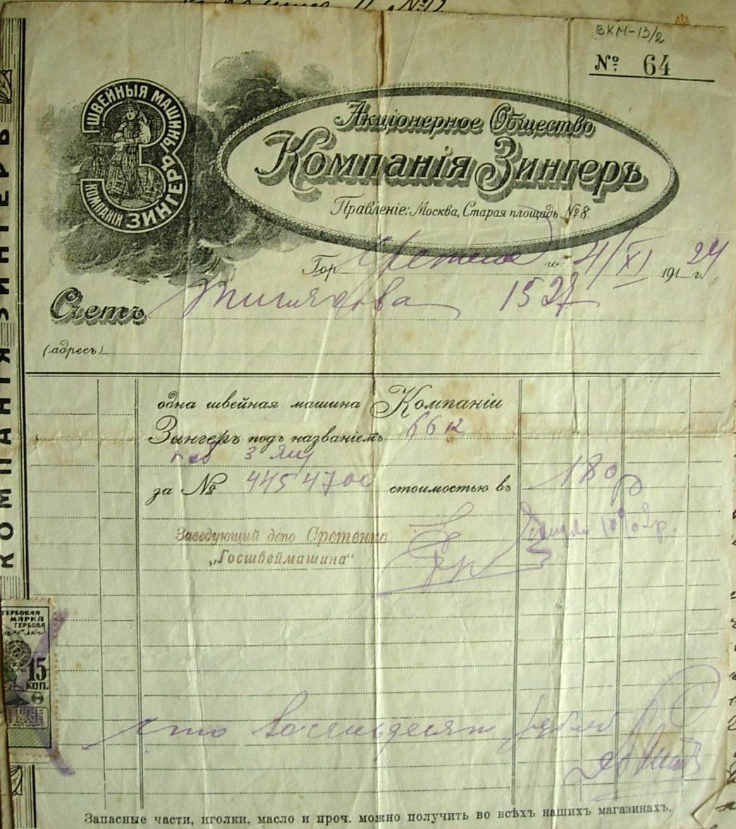 A form of Singer Company with russian logotype by Vladimir Taburin